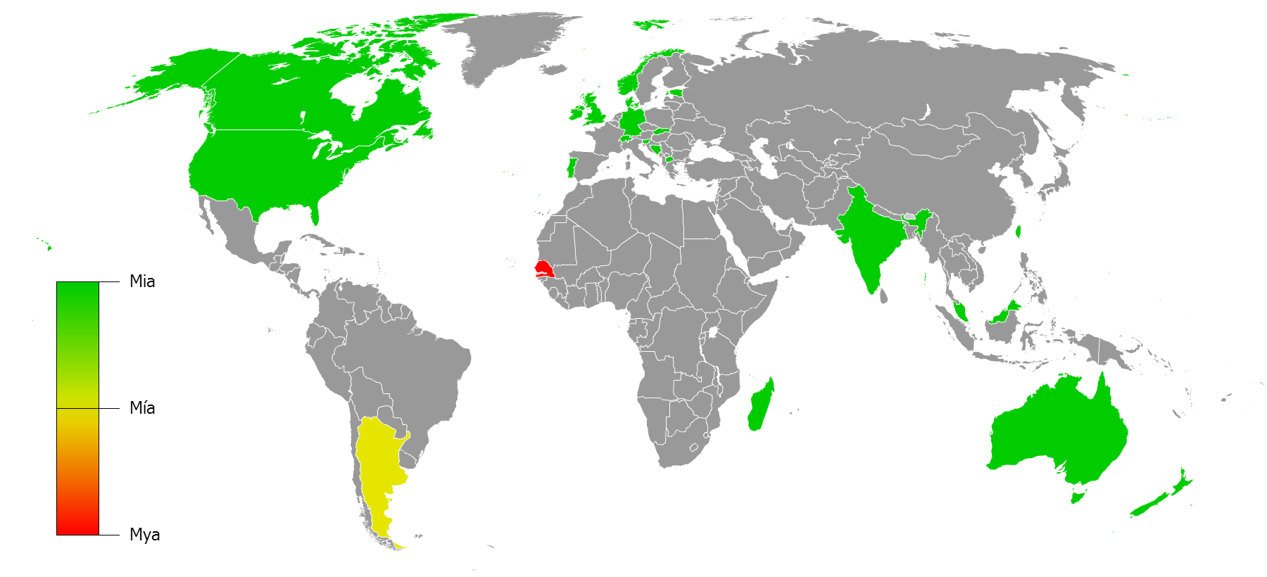 World map showing the countries where the names Mya, Mía or Mia are popular. Any color means the name is among the 100 most popular names either in the population or among newborns. Map created using GunnMap and data from multiple sources. This map was created with GunnMapGunnMap was created by Arthur Gunn and is available, free, at and attribute by linking to IDs and rank values used: Canada 3 1 Germany 3 1 Australia 3 3 Estonia 3 4 United Kingdom 3 9 Wales 3 9 Scotland 3 10 Norway 3 13 England 3 13 New Zealand 3 14 Switzerland 3 16 United States 3 17 Ireland 3 23 Taiwan 3 25 Malaysia 3 25 Madagascar 3 25 India 3 25 Senegal 1 25 Macedonia 3 33 Bosnia and Herzegovina 3 35 Argentina 2 41 Slovenia 3 46 Denmark 3 47 Slovakia 3 69 Portugal 3 76